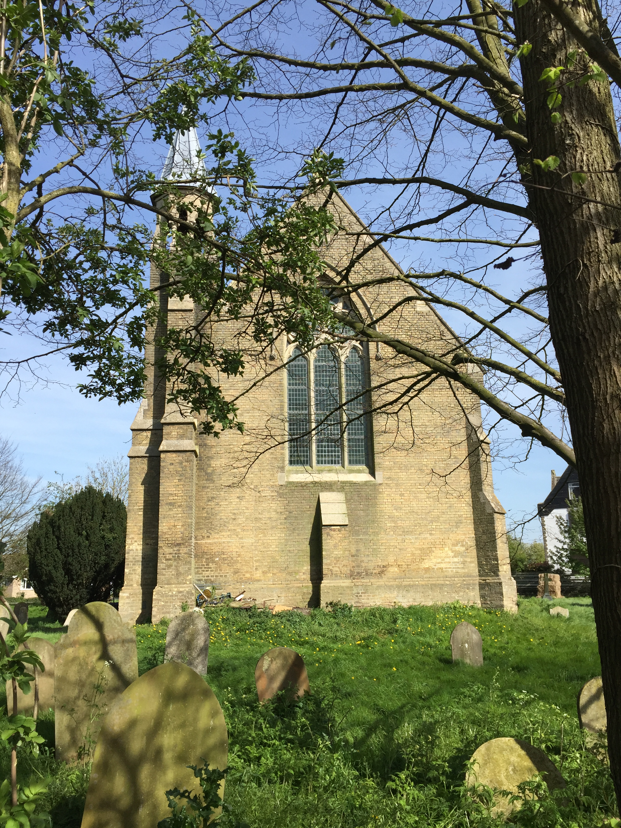 St Thomas's parish church, Pondersbridge, Cambridgeshire, seen from the west